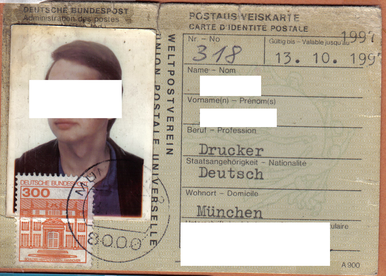 International postal ID issued in Germany 1987.